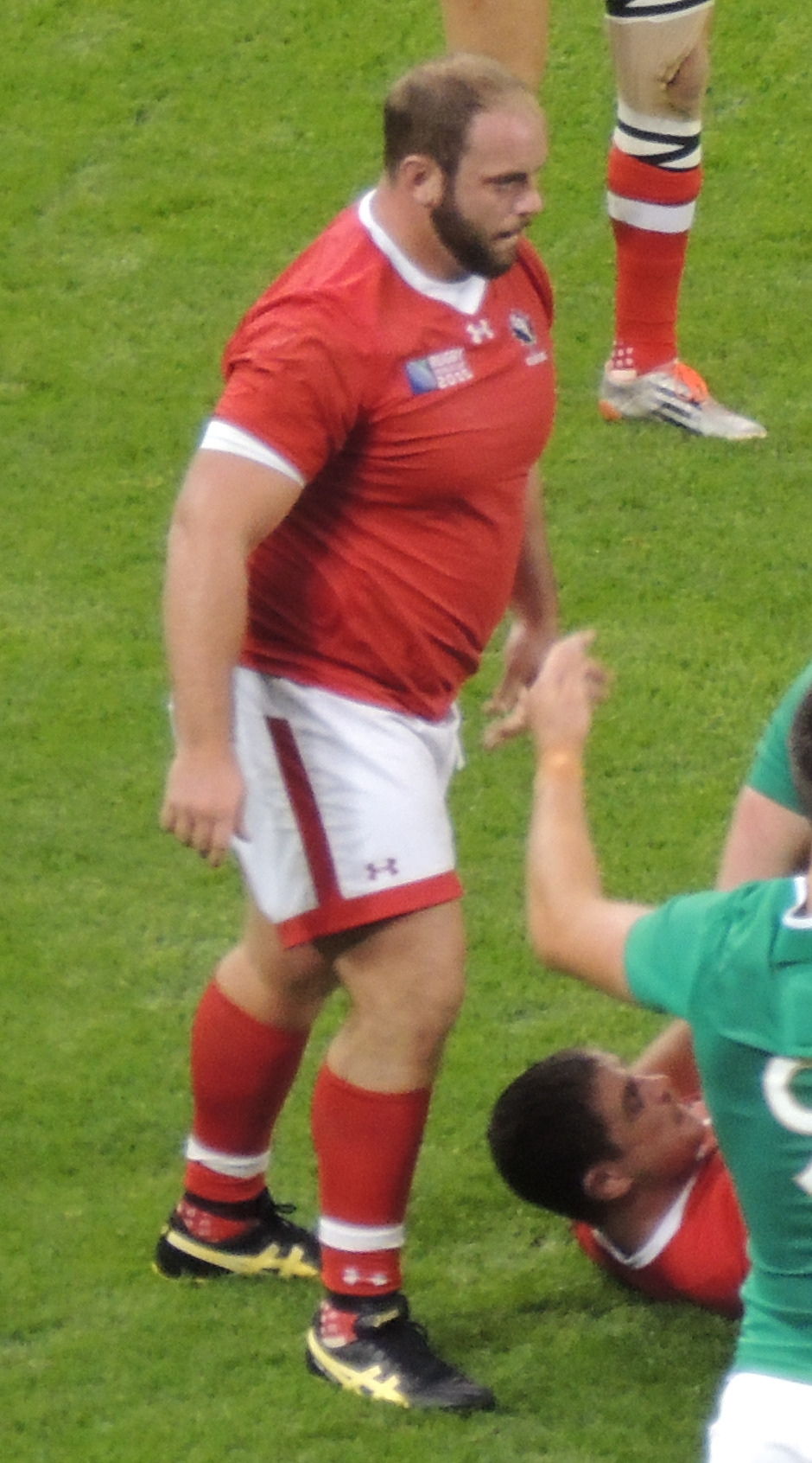 Canadian rugby union player Doug Wooldridge playing in 2015 Rugby World Cup game Ireland vs Canada at Millennium Stadium in Cardiff.